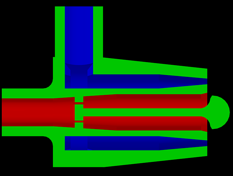 Pintle injector, CAD render. Top view.